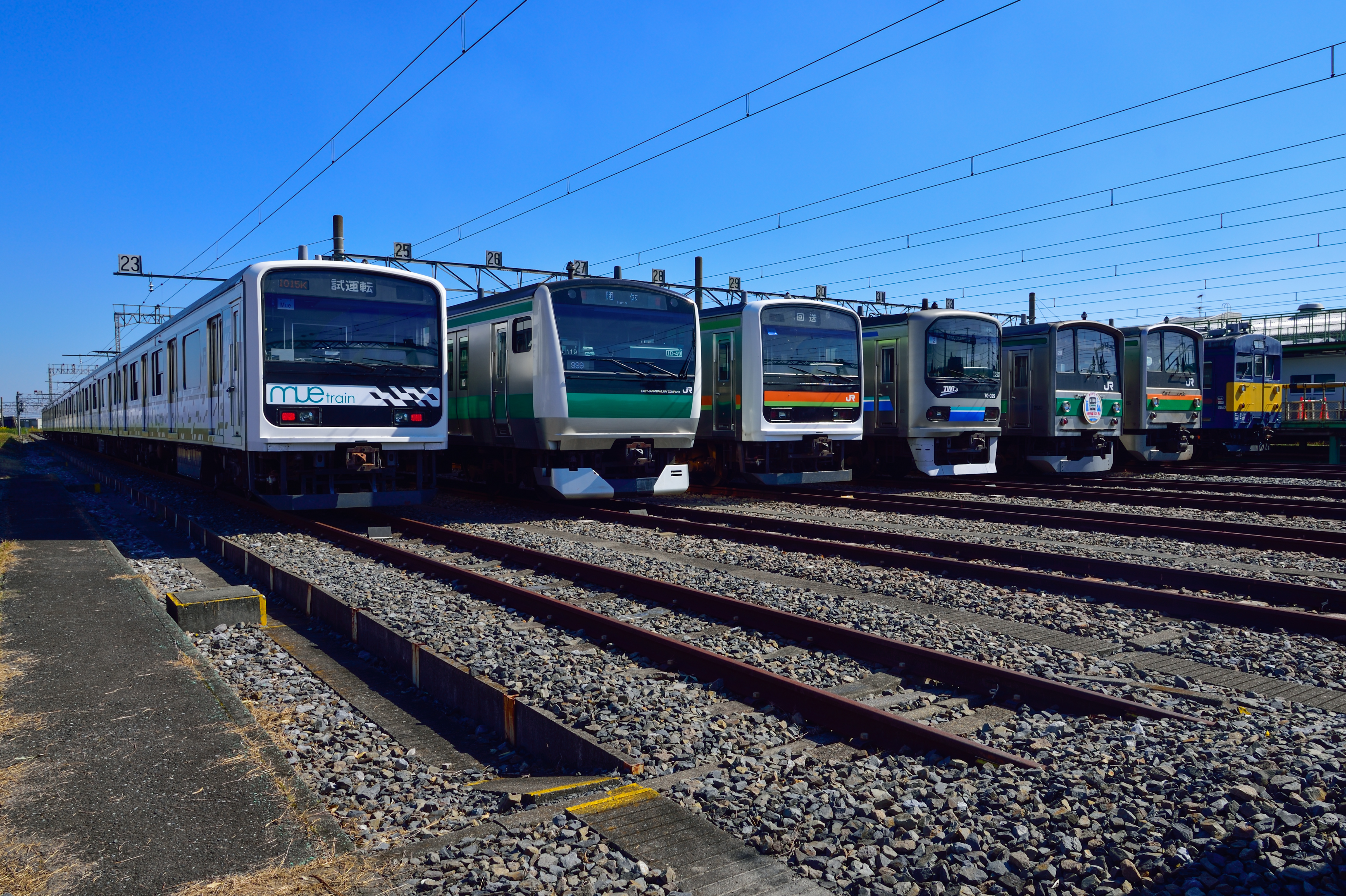 Kawagoe Rolling Stock Center open day